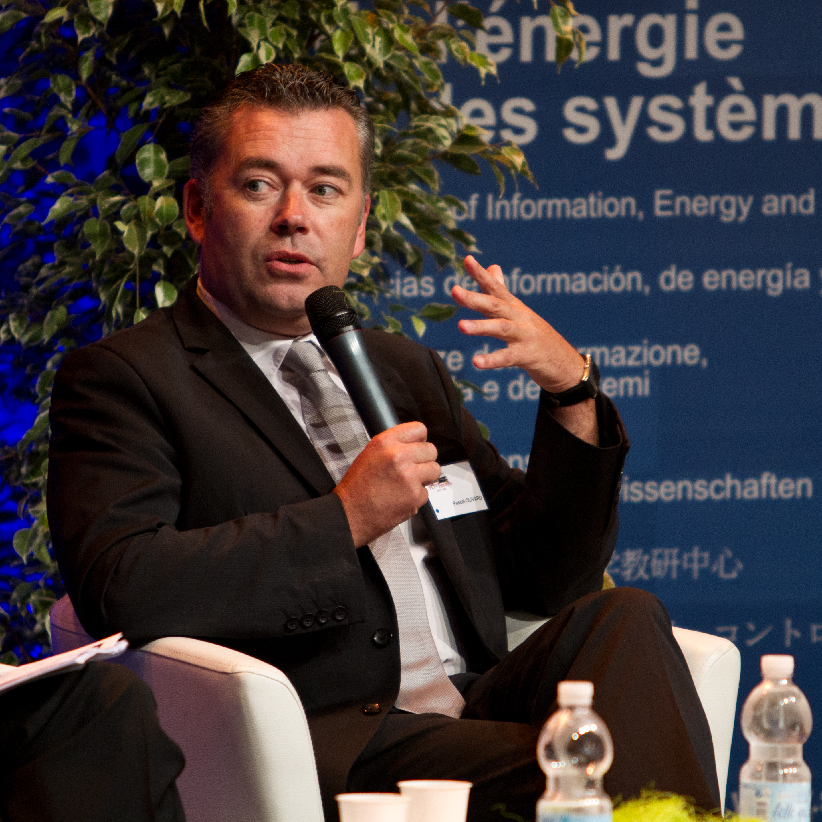 Pascal Olivard, at the 40th anniversary of the Rennes campus of Supélec.